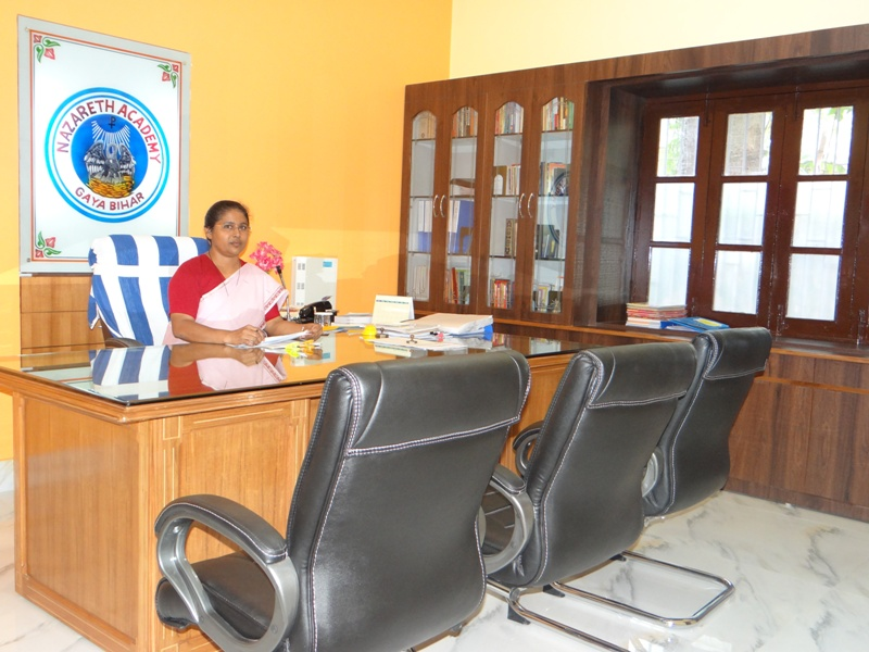 The Current Principal (2011- )